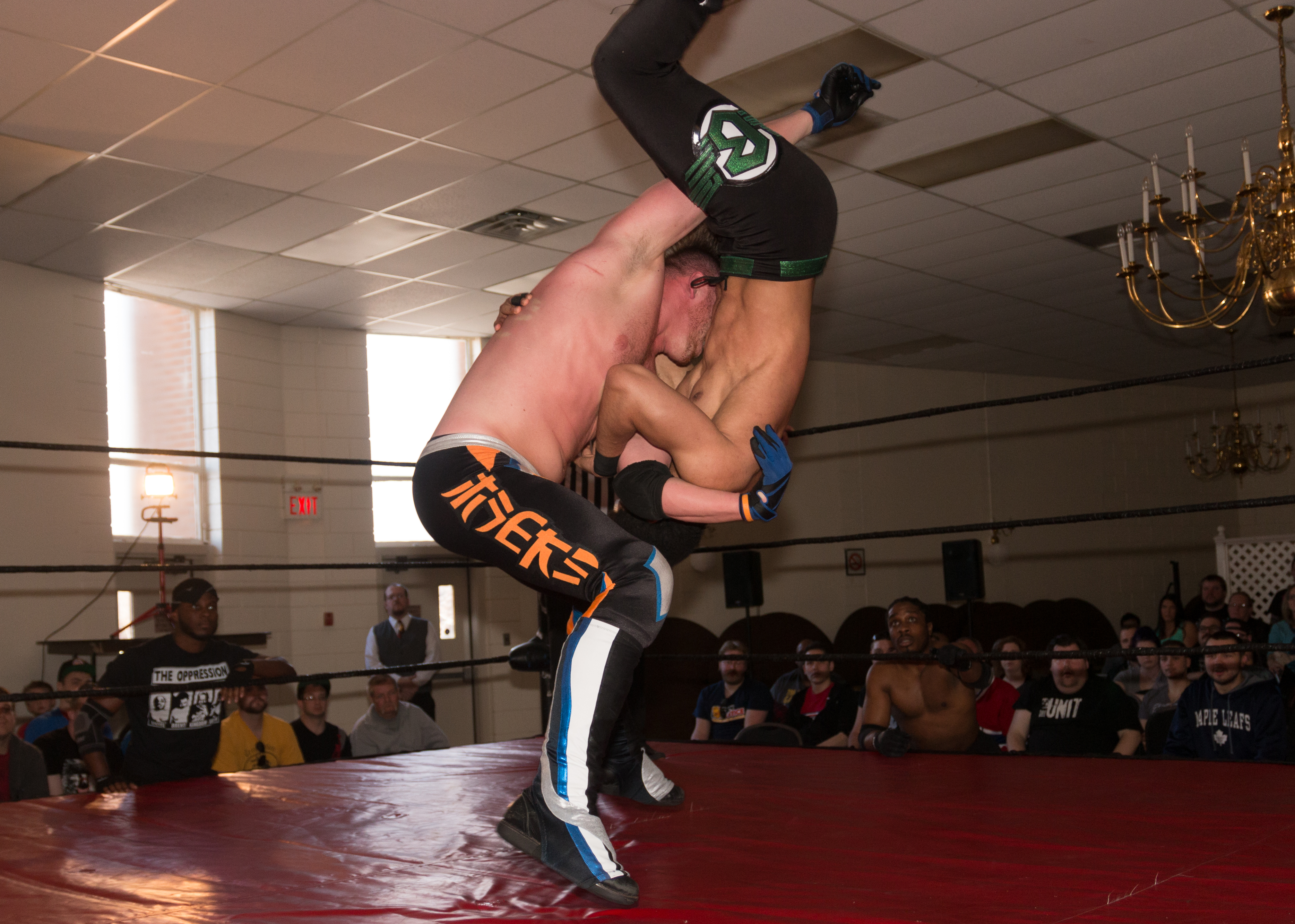 Brian Myers (left) hitting a sitout twisting delayed scoop slam on Brent banks